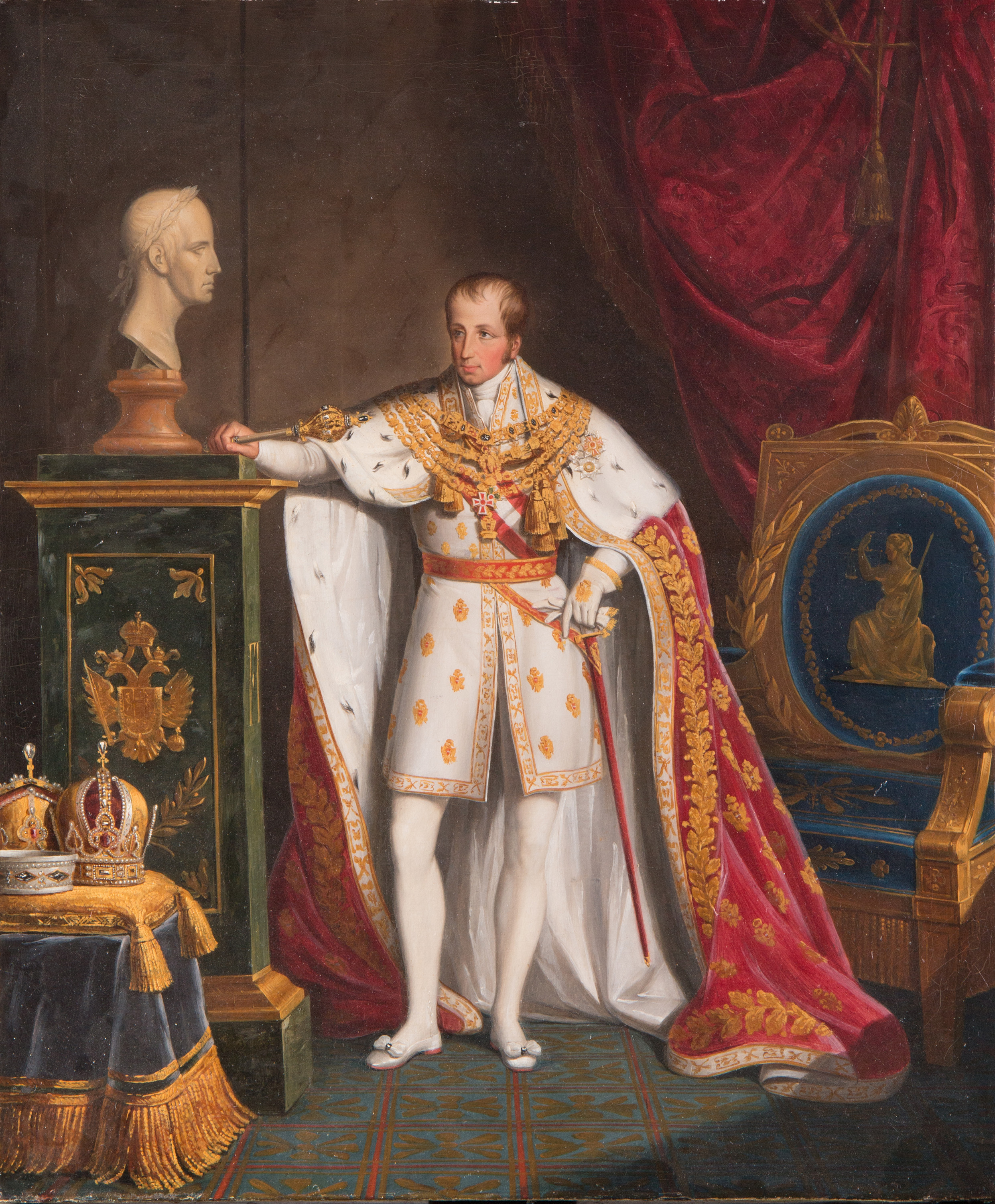 A portrait of Ferdinand I of Austria, who reigned as Emperor from 1835-48.